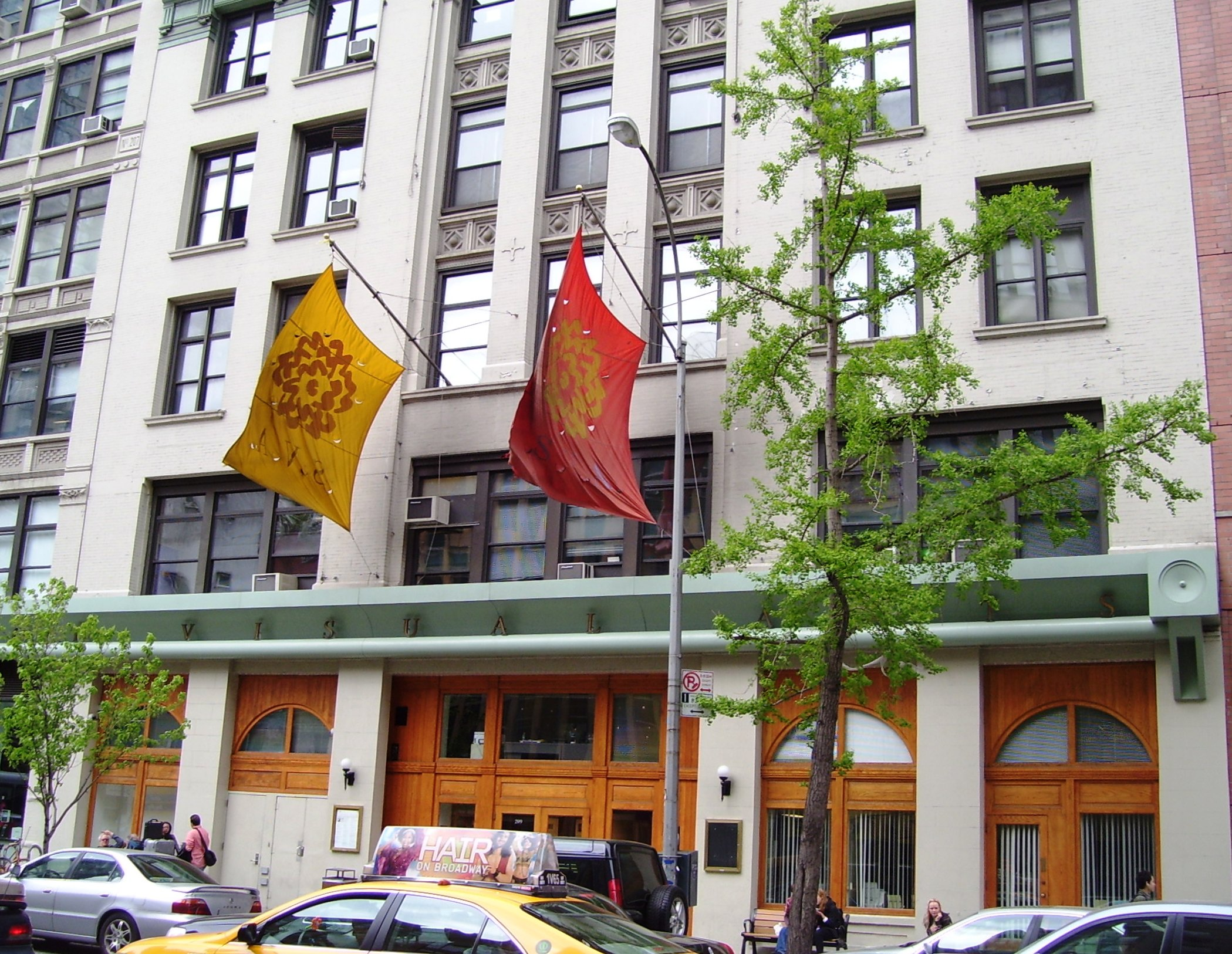 The main building of the School of Visual Arts on East 23rd Street in Manhattan, New York City.